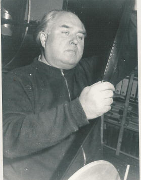 portrait while proofing filmmaterial